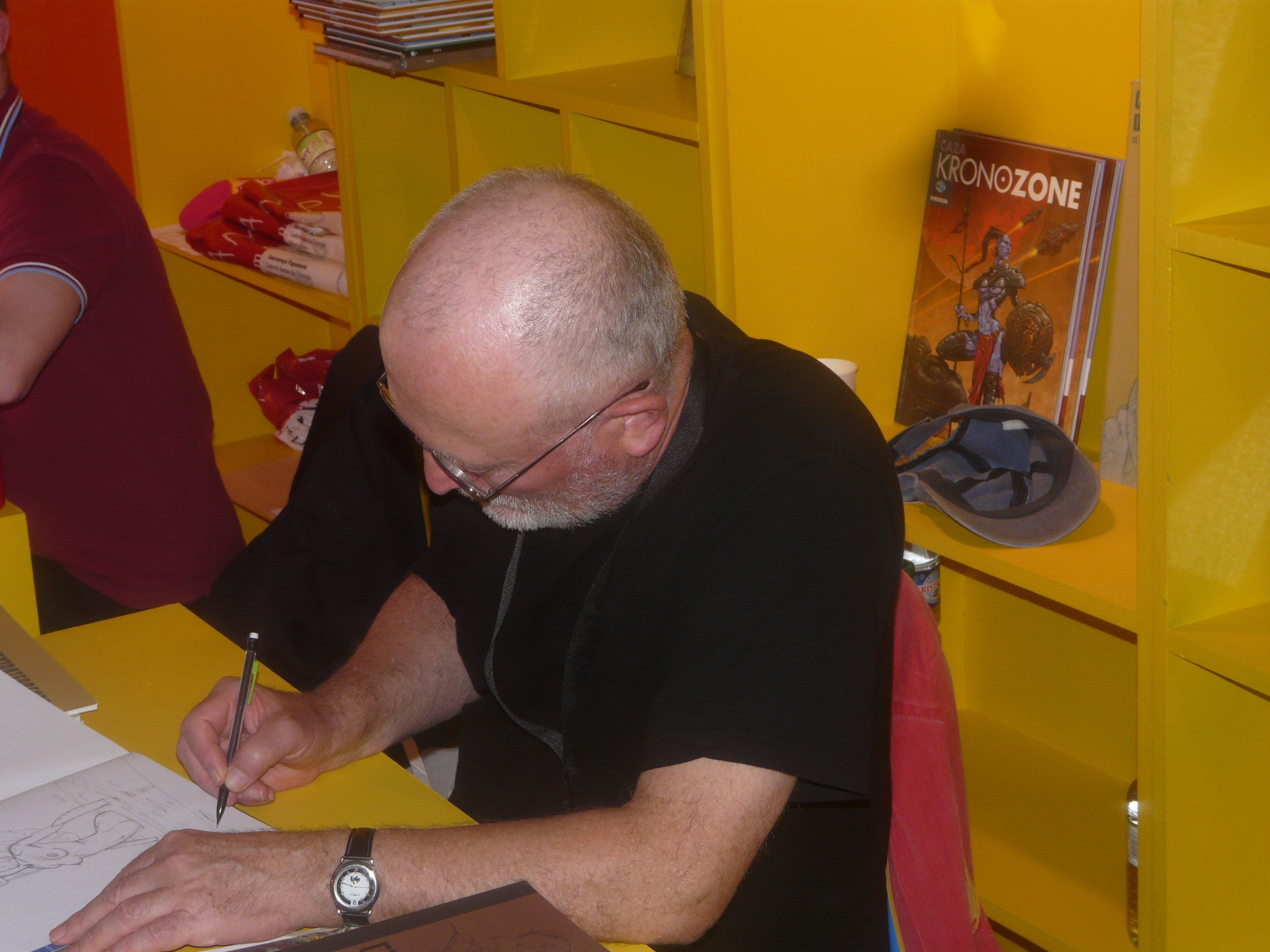 Photographs taken during the Comic Festival "O tour de la bulle" of Montpellier, France